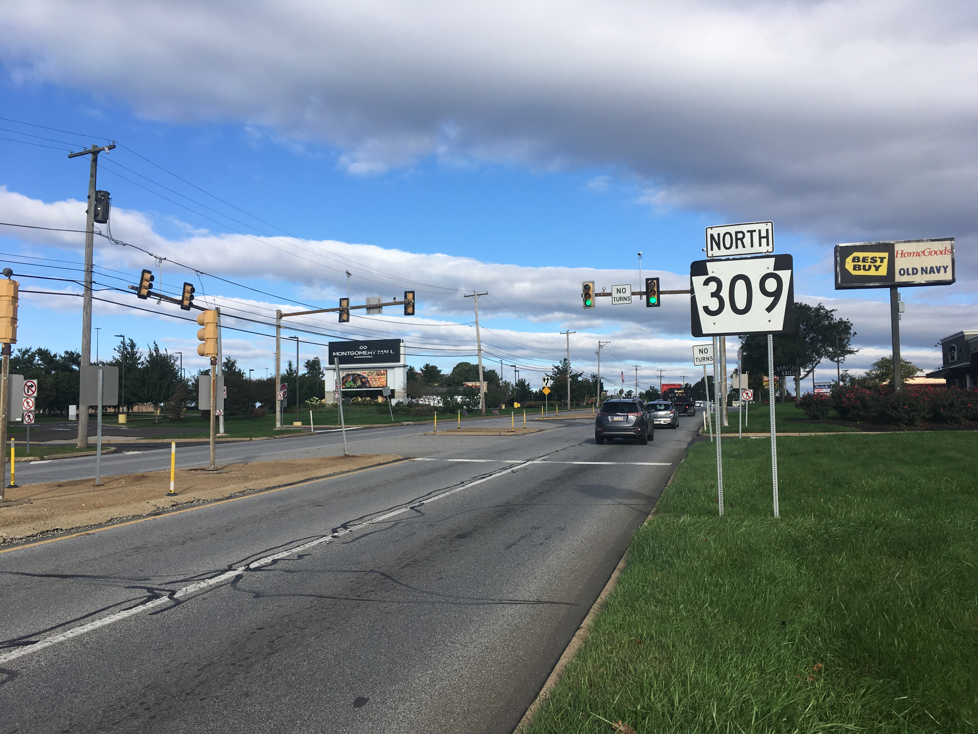 Northbound U.S. Route 202 Business/Pennsylvania Route 309 (Bethlehem Pike) past the intersection with Upper State Road in Montgomery Township, Pennsylvania